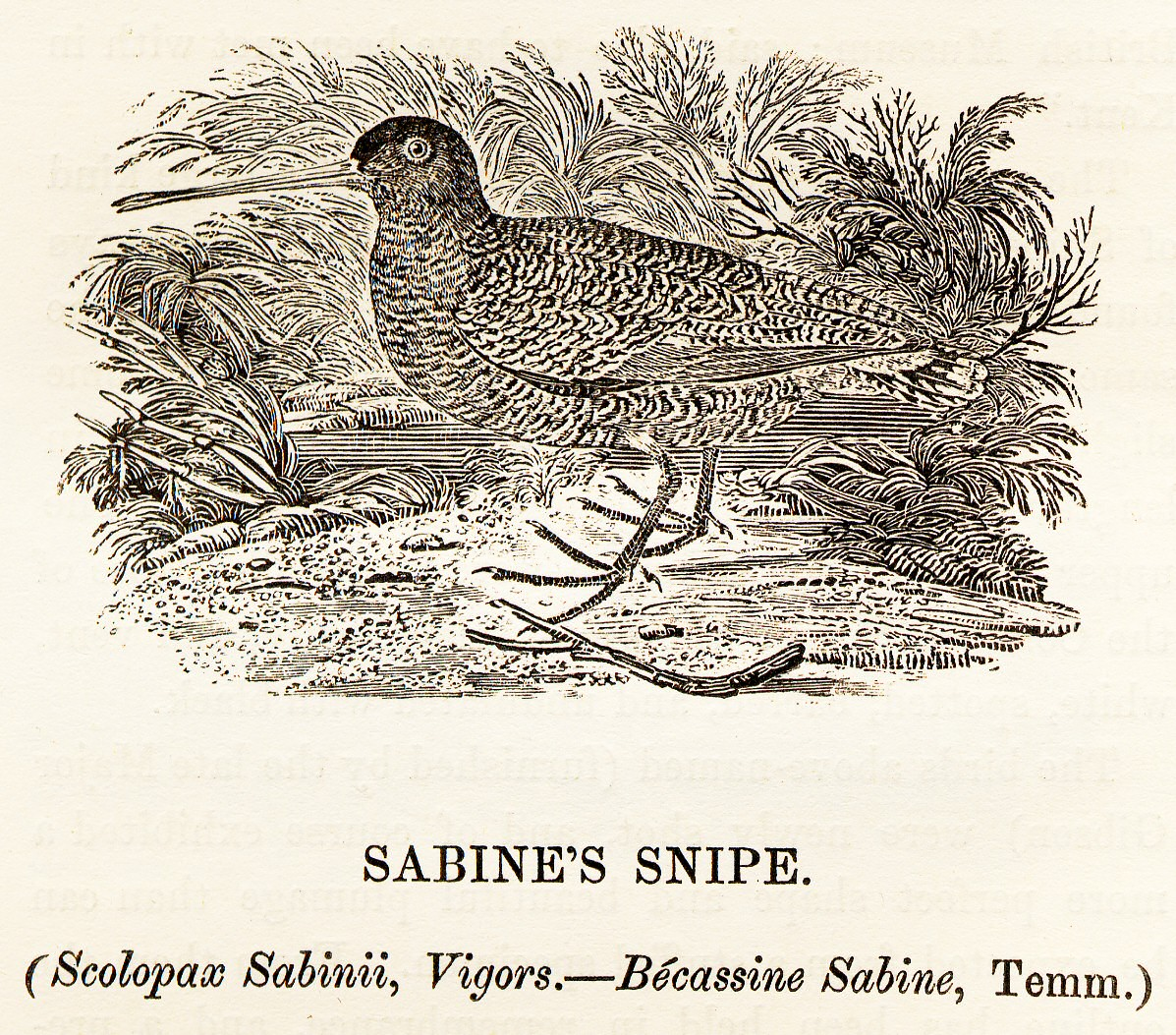 Woodcut of 'Sabine's Snipe' (Vigors) from History of British Birds by Thomas Bewick, 1847 edition, drawn from the specimen lent by Vigors, probably a Wilson's Snipe.